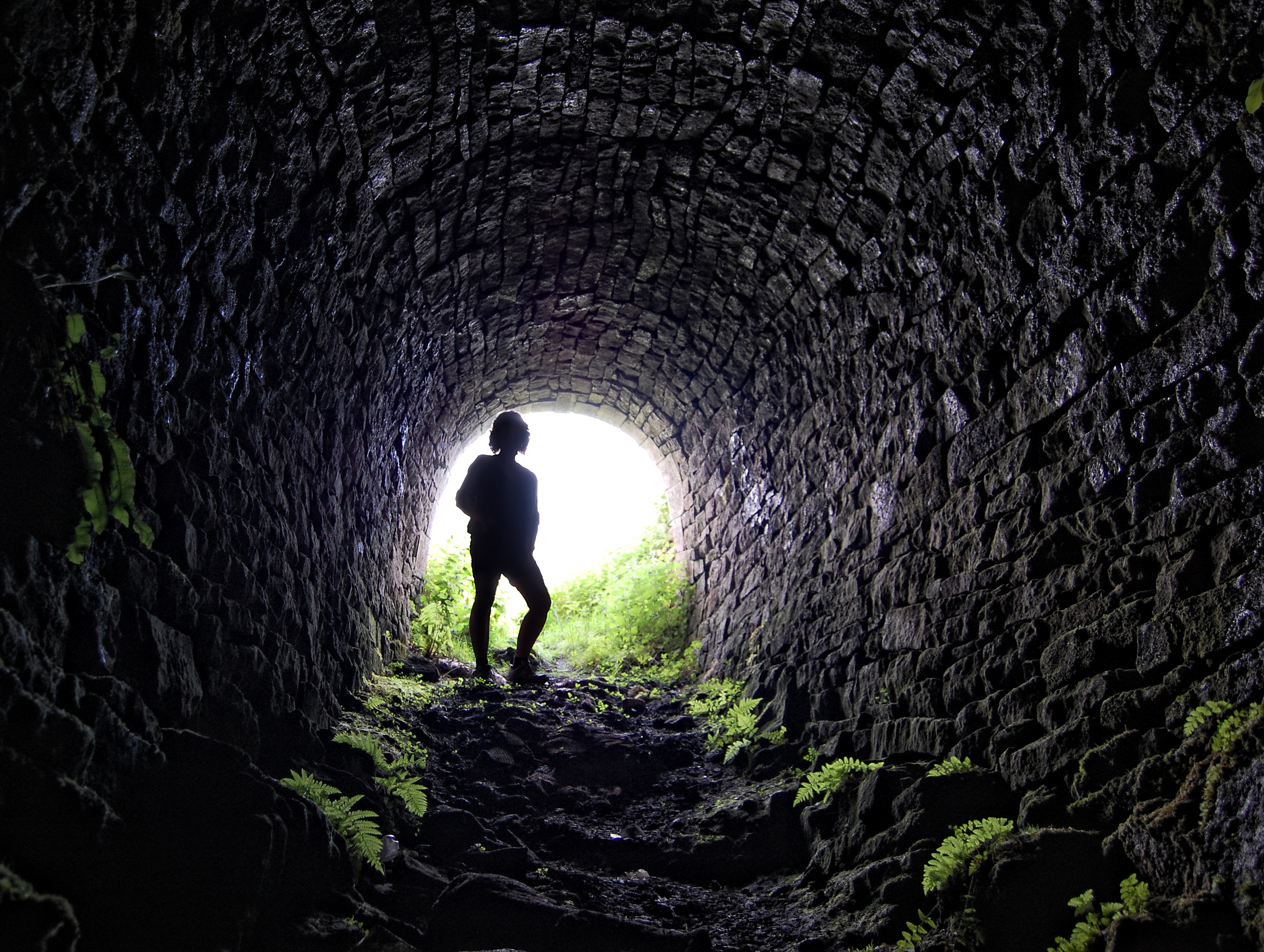 This inclined shaft, part of the Yarnbury mine operations to the north of Grassington, was sunk during 1828 to provide a haulage link to a level some 120 feet below ground. It was named after Captain John Barratt who was the Duke of Devonshire's mine agent at the time. Lead ore, mixed with other minerals, was dug out by hand in the Yarnbury mine and then pulled to the surface in rail-bound mining carts using horses.